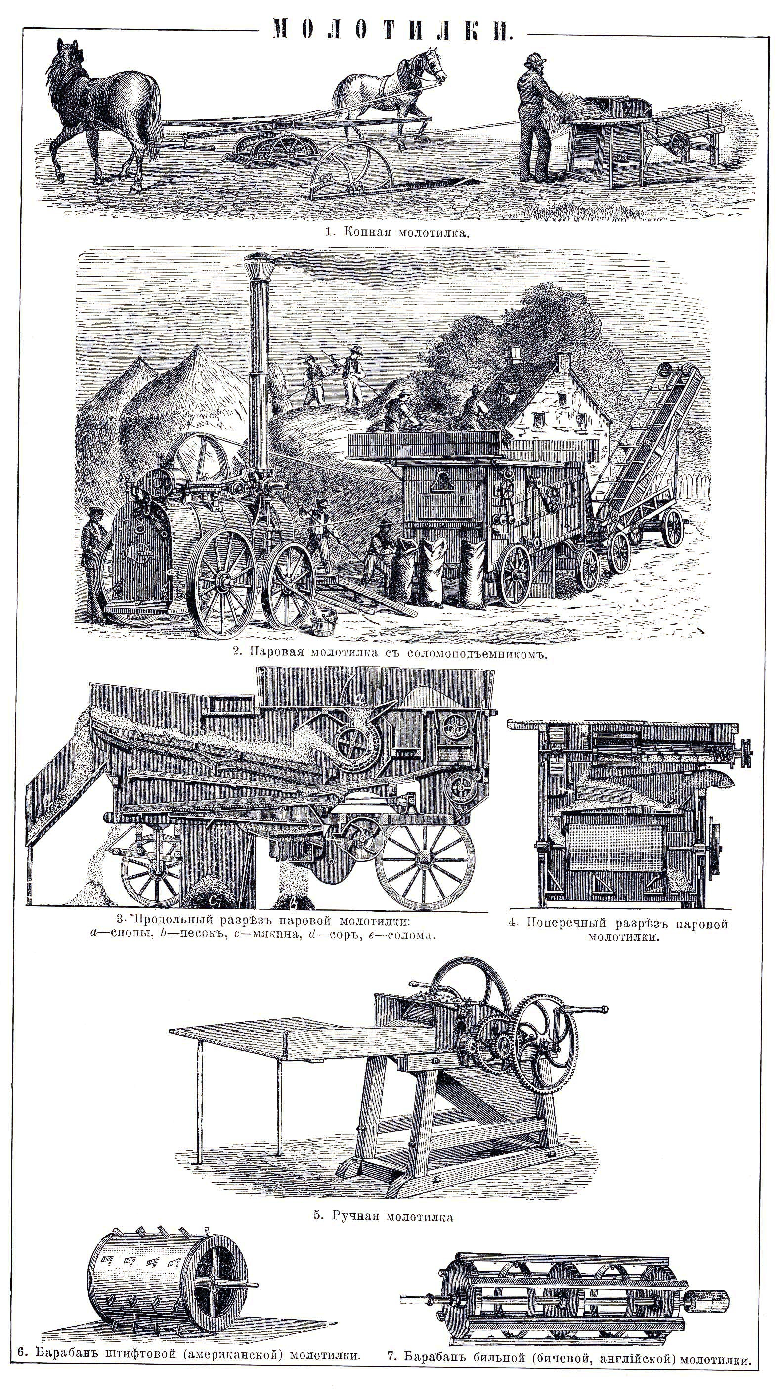 Illustration from Brockhaus and Efron Encyclopedic Dictionary (1890—1907)